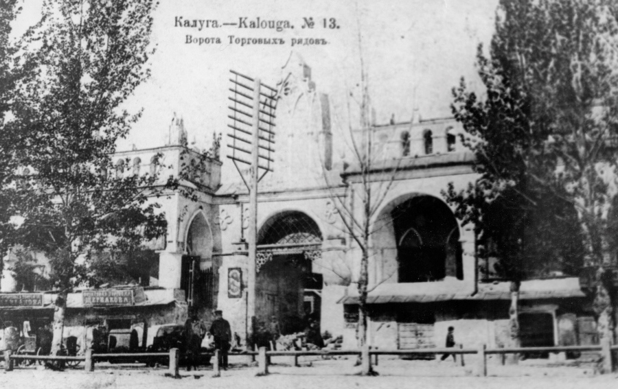 Postcard. Kaluga. Gates of trading rows